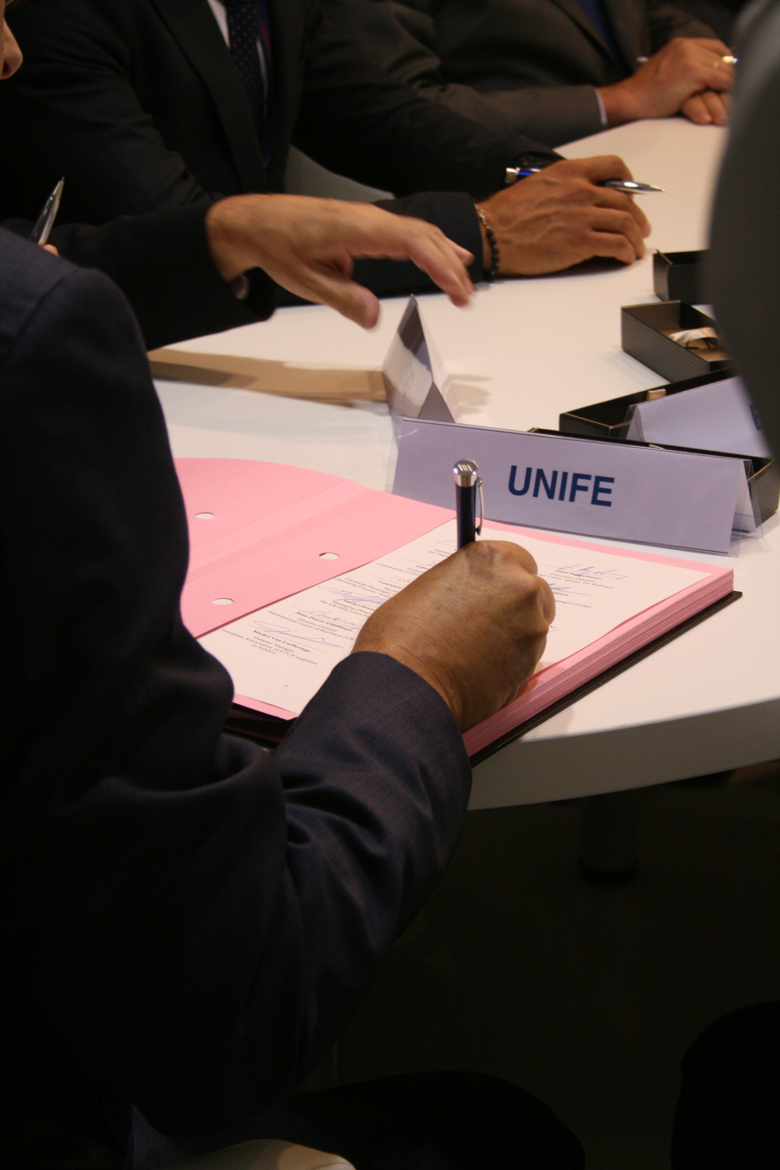 The memorandum of understanding on the future of ETCS while signing by various stakeholders.